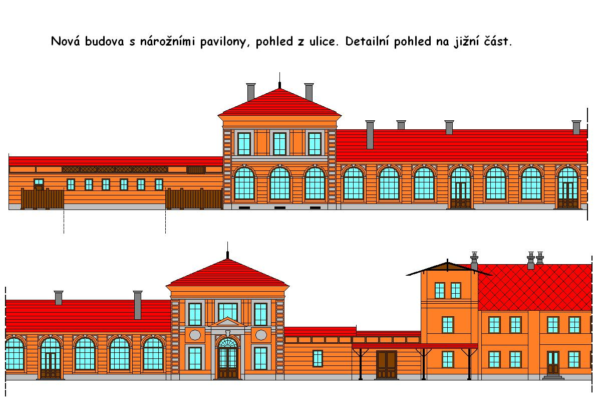 The nonexistent railway station in Hradec Králové. Built in 1893. Was found at the same place, what the present station Hradec Králové hlavní nádraží.